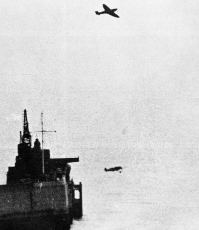 A Royal Air Force Supermarine Spitfire (top) and a German Messerschmitt Me 109E fighter in flight. The Me 109 seems to be hit with the left undercarriage lowered.